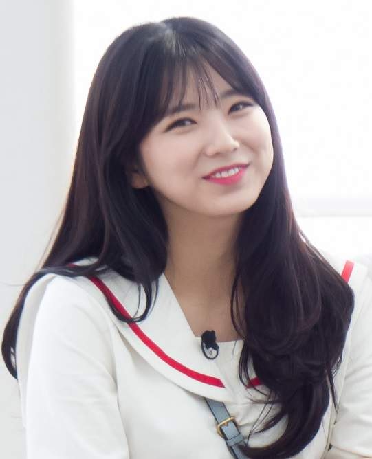 160922 아이비아이 이수현 @ 인천공항 출국&헬로 아이비아이 촬영